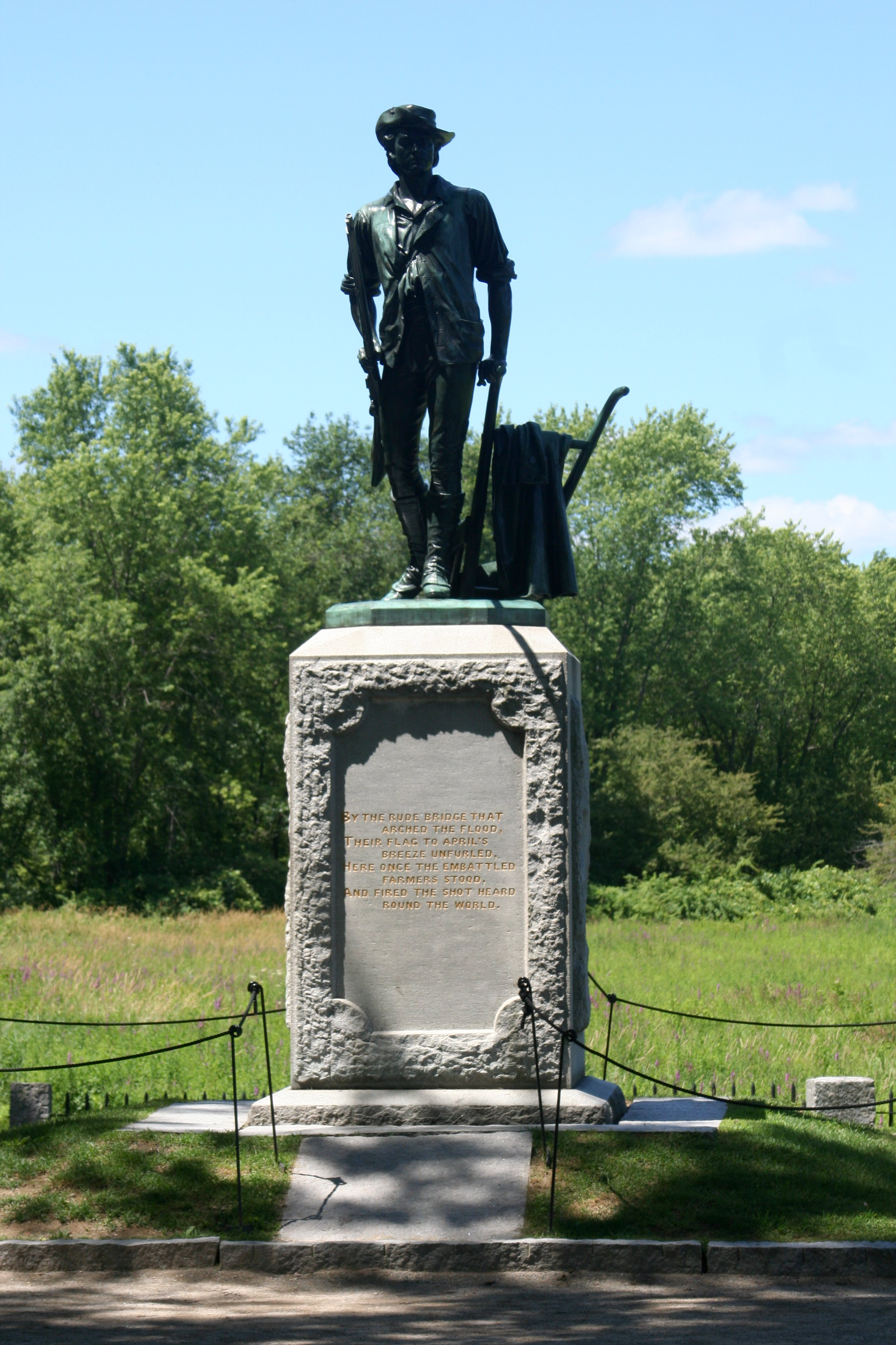 The Minute Man, statue by Daniel Chester French, at the Old North Bridge, Concord, Massachusetts.